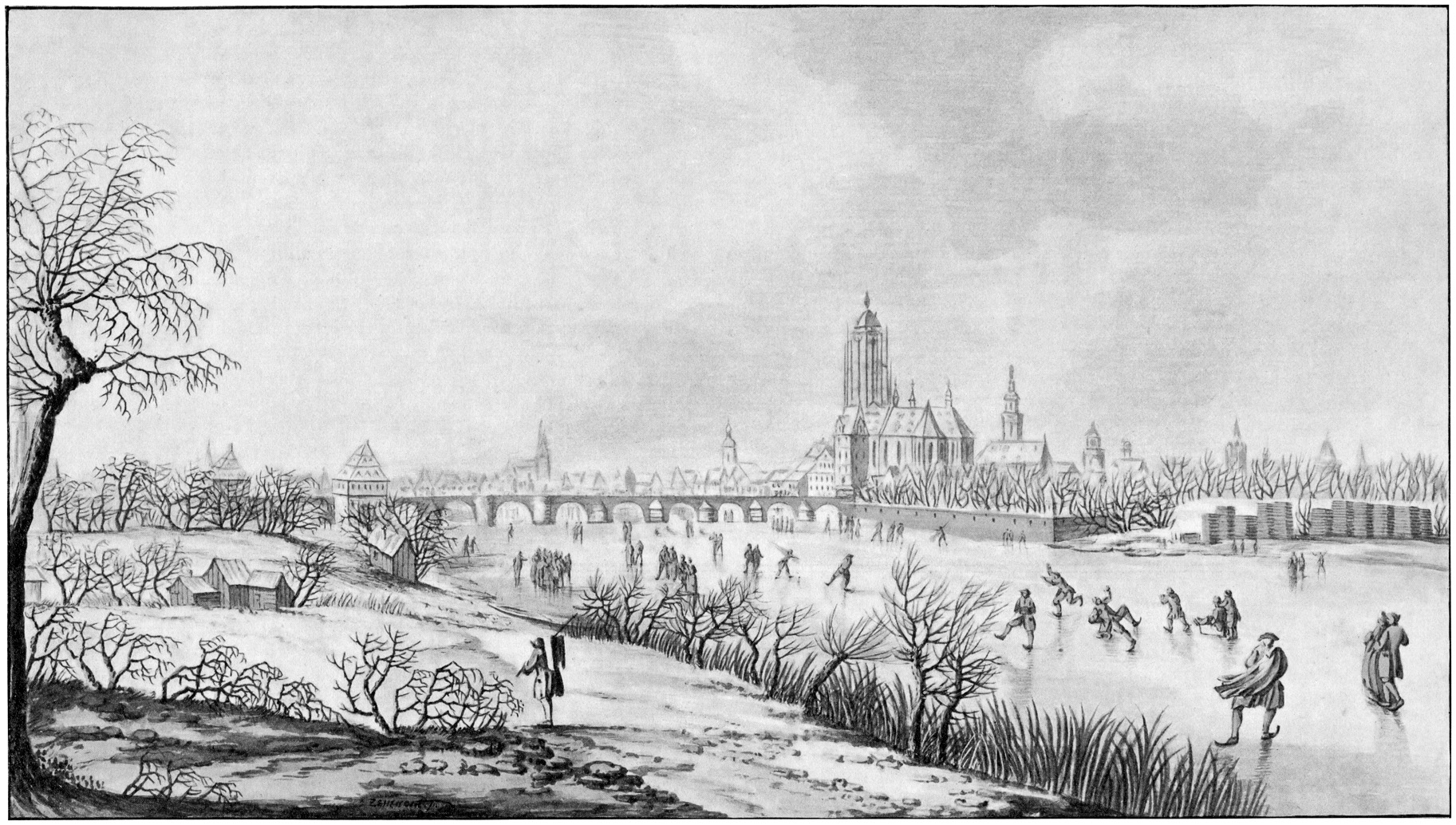 Frankfurt on the Main: Ice-skaters in the east of the city